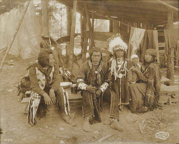 Nez Perce family in camp, Alaska Yukon Pacific Exposition, Seattle, 1909. Photographer: Nowell, Frank H., 1864-1950 Subjects (LCSH): Nez Perce Indians--Washington (State)--Seattle Indian women--Washington (State)--Seattle Indian children--Washington (State)--Seattle Ethnic costume--Washington (State)--Seattle Rifles--Washington (State)--Seattle Alaska-Yukon-Pacific Exposition (1909 : Seattle, Wash.) Exhibitions--Washington (State)--Seattle Digital Collection: Alaska-Yukon-Pacific Exposition Collection Item Number: AYP556 Persistent URL: University of Washington Libraries. Digital Collections [#//content.lib.washington.edu%20